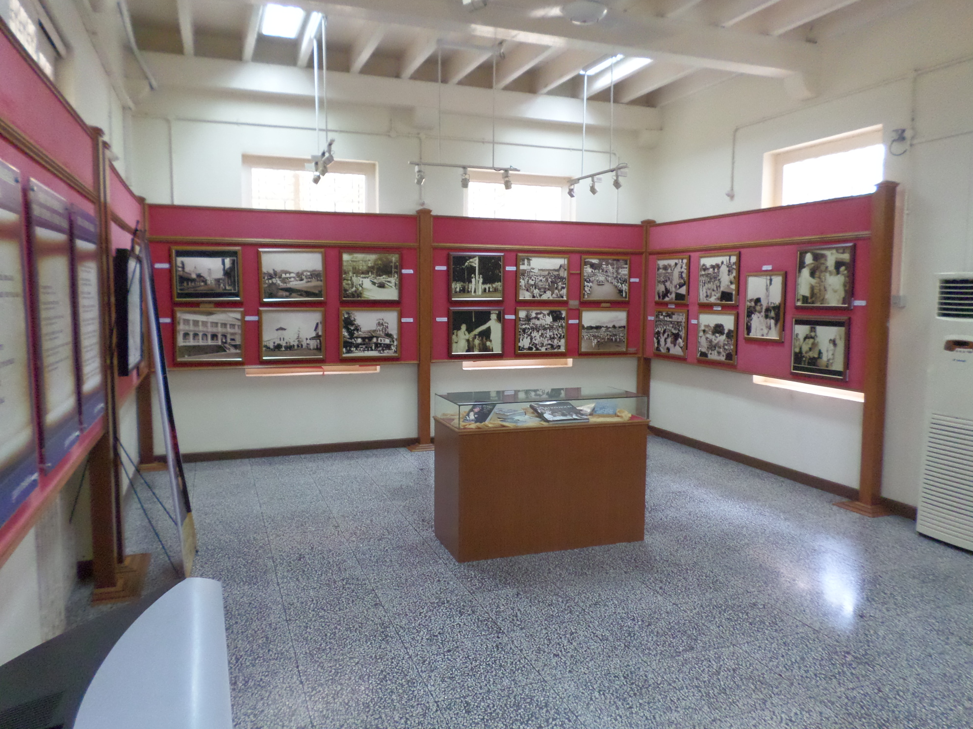 Melaka Gallery, Bukit Peringgit, Central Melaka, Melaka, MalaysiaBahasa Melayu: Galeri Melaka, Bukit Peringgit, Melaka Tengah, Melaka, Malaysia